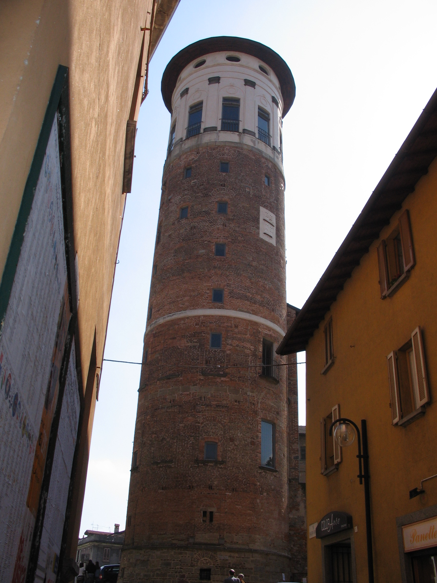 Autore Giorces. Palazzo Prinetti. Picture, perspective corrected: Image:Merate4s.jpg